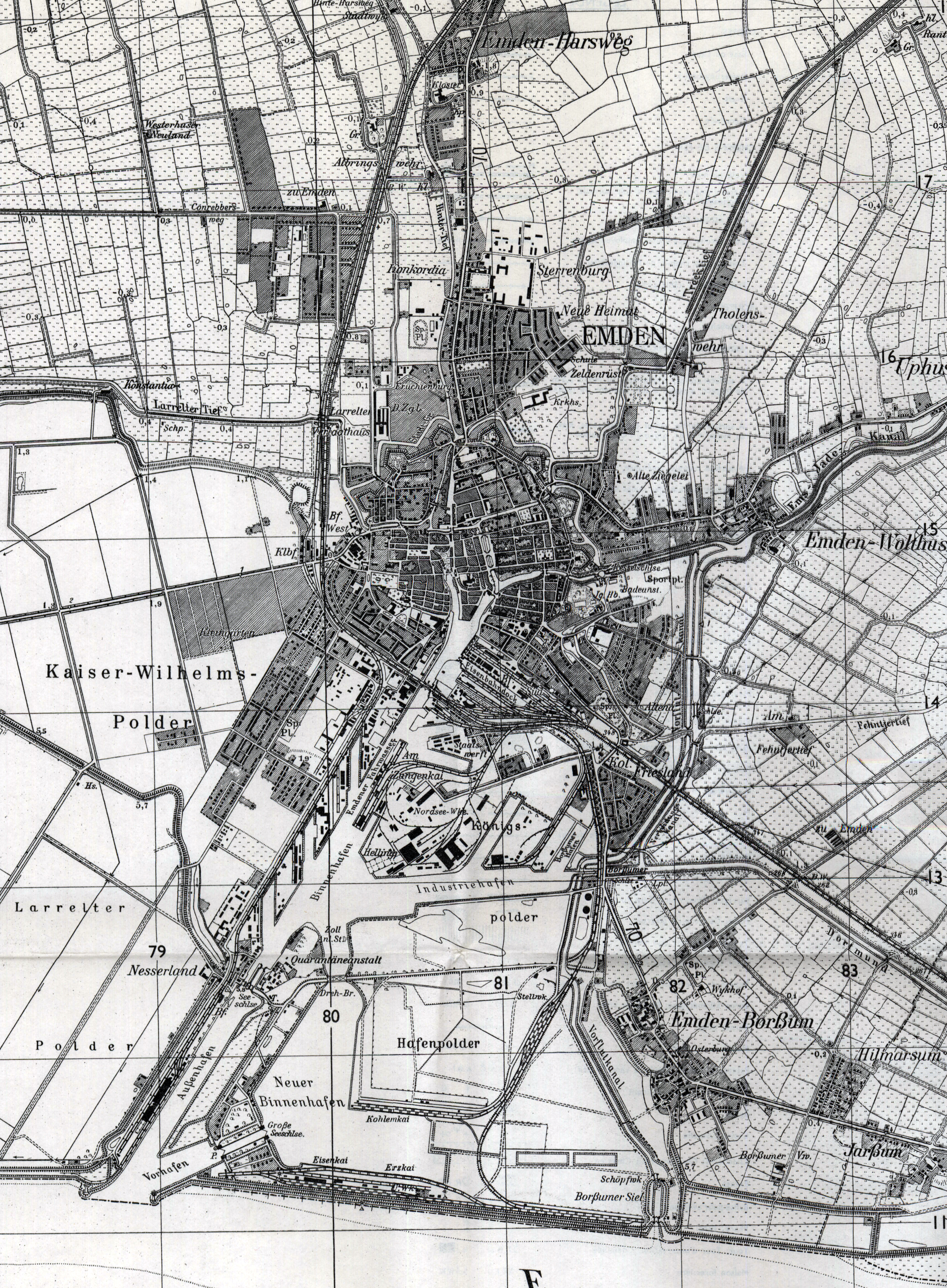 TK 25000 1954 Emden 2609